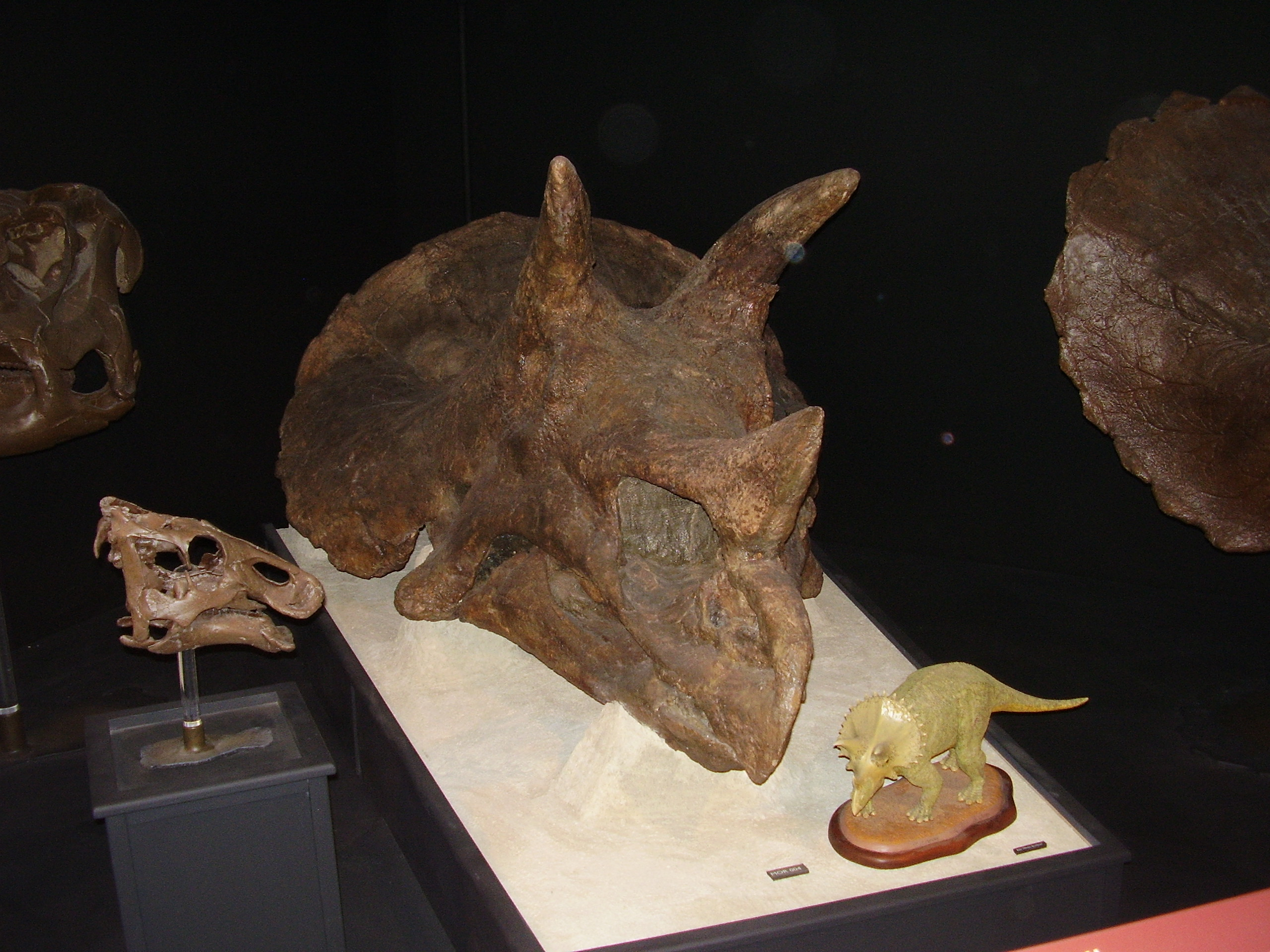 Skull of ceratopsian Triceratops in the Museum of the Rockies.